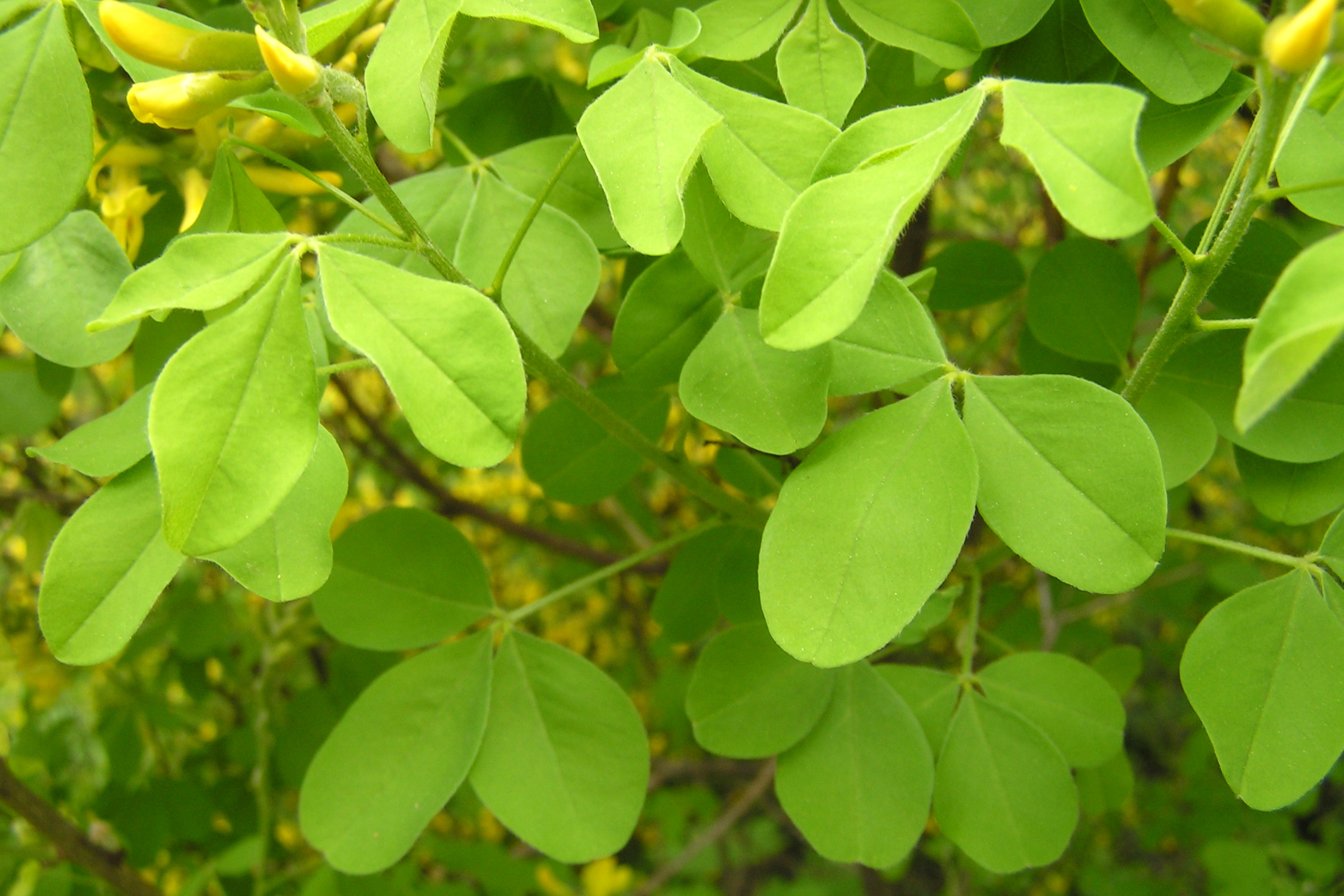 Petteria ramentacea in the Botanical Garden of the University of Vienna